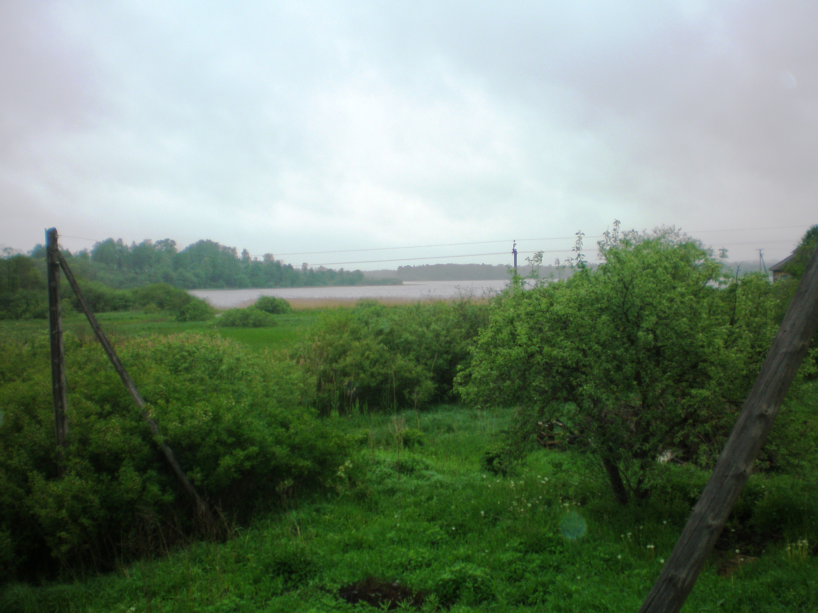 Lake Krupeyskoye near Pustoshka, Pskov Oblast, Russia.